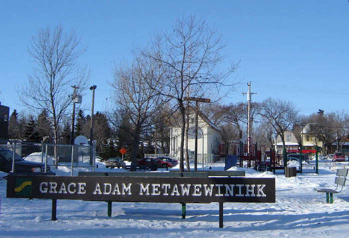 Grace Adam Metawewinihk, Pleasant Hill, Core Neighbourhoods SDA, Saskatoon, Saskatchewan